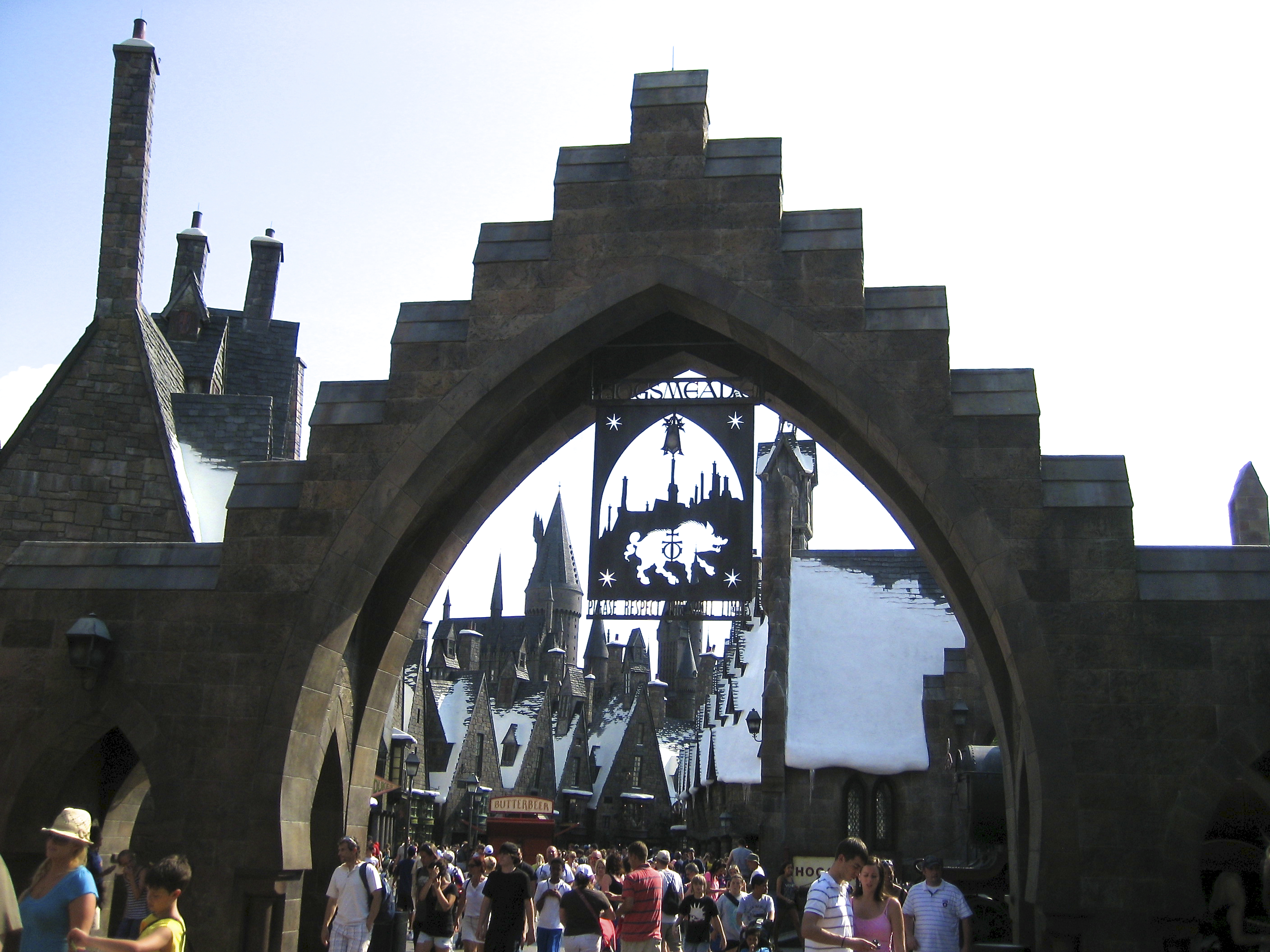 Taken during the evening on a sunny Orlando day.